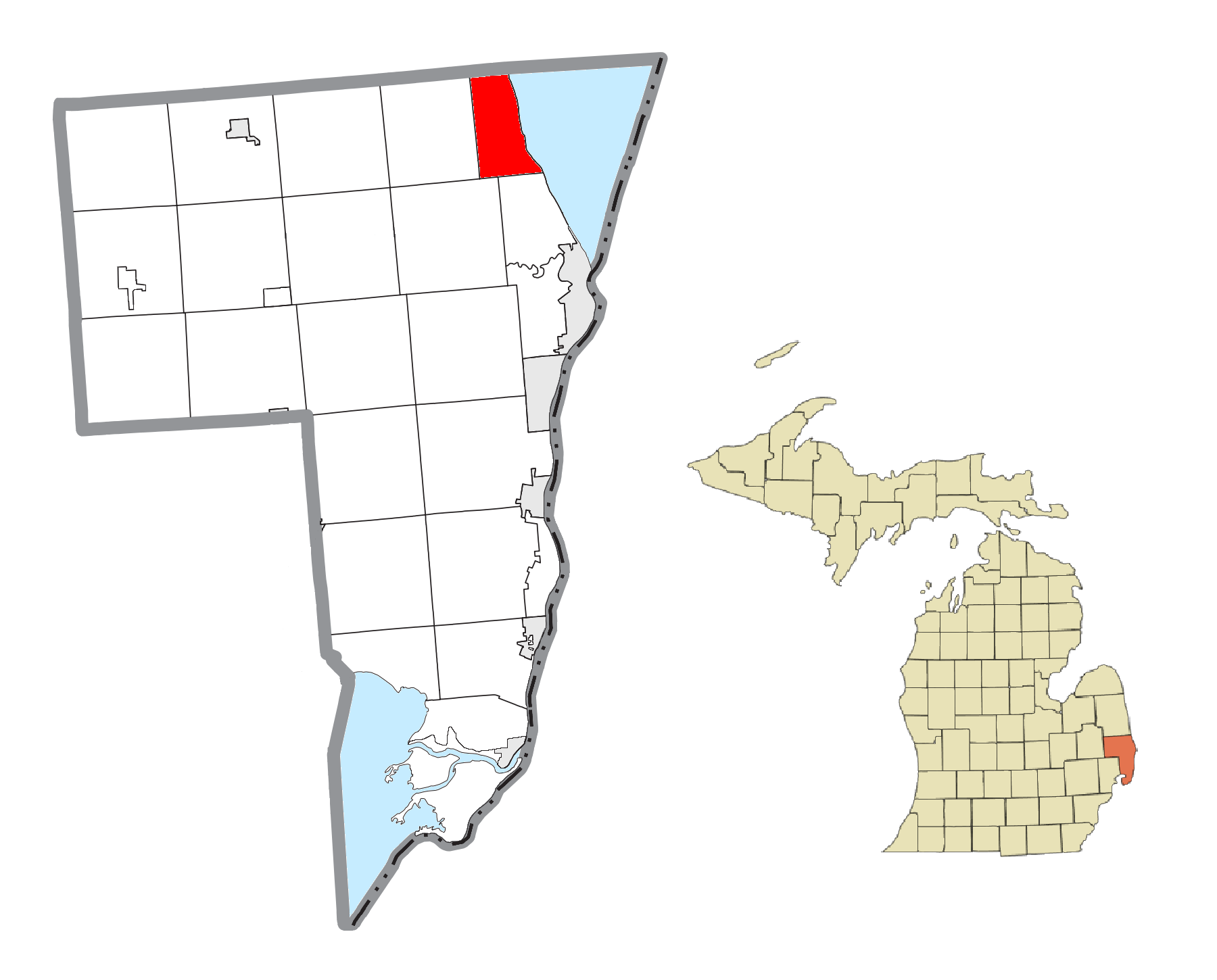 Burtchville Township, MI